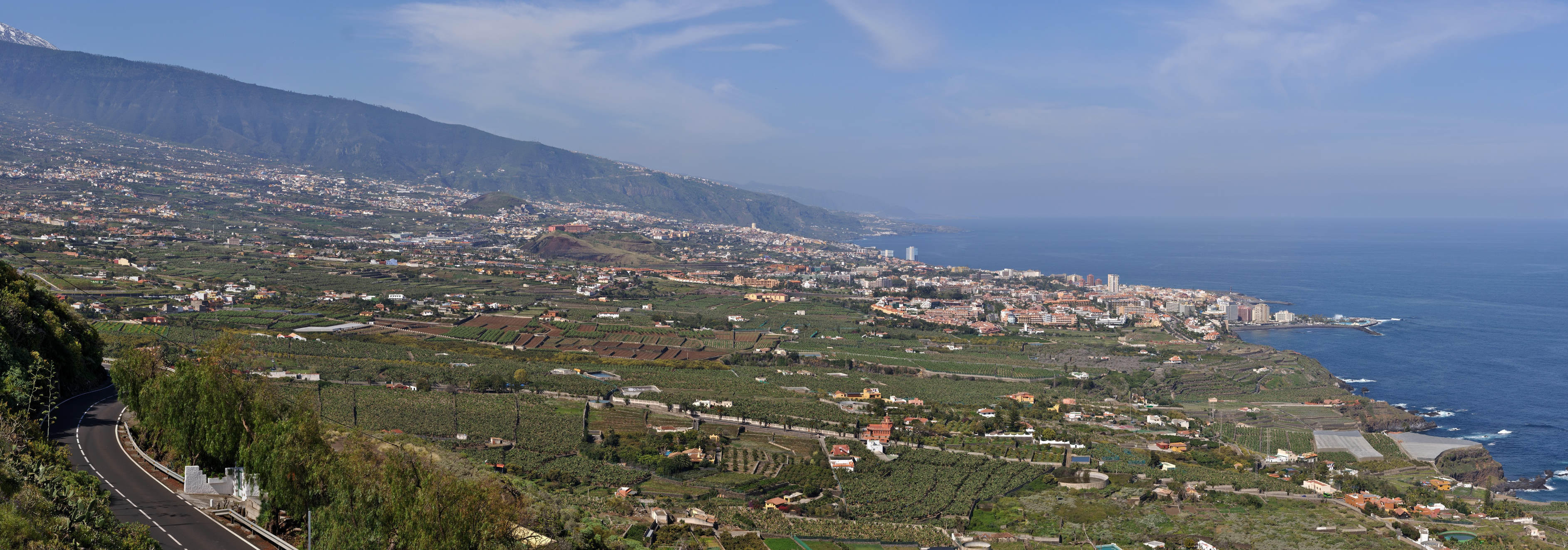 Orotava Valley on Tenerife, Canary Islands, Spain, as seen from Humboldt's viewpoint (Mirador Humboldt) with Puerto de la Cruz and surrounding townships in the center, banana plantations in the foreground and Mount Teide in the background. This panorama was stitched from 36 single images.